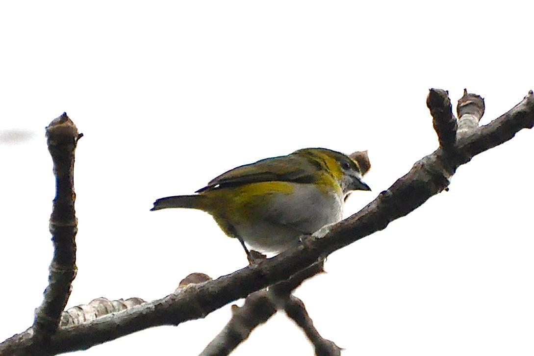 White-lored Euphonia (Euphonia chrysopasta), Sacha Lodge, Ecuador